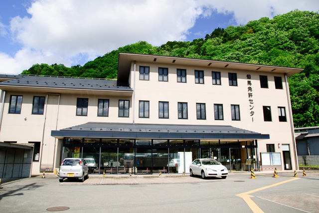 Tajima License Center in Yabu ,Hyogo Prefecture,Japan.